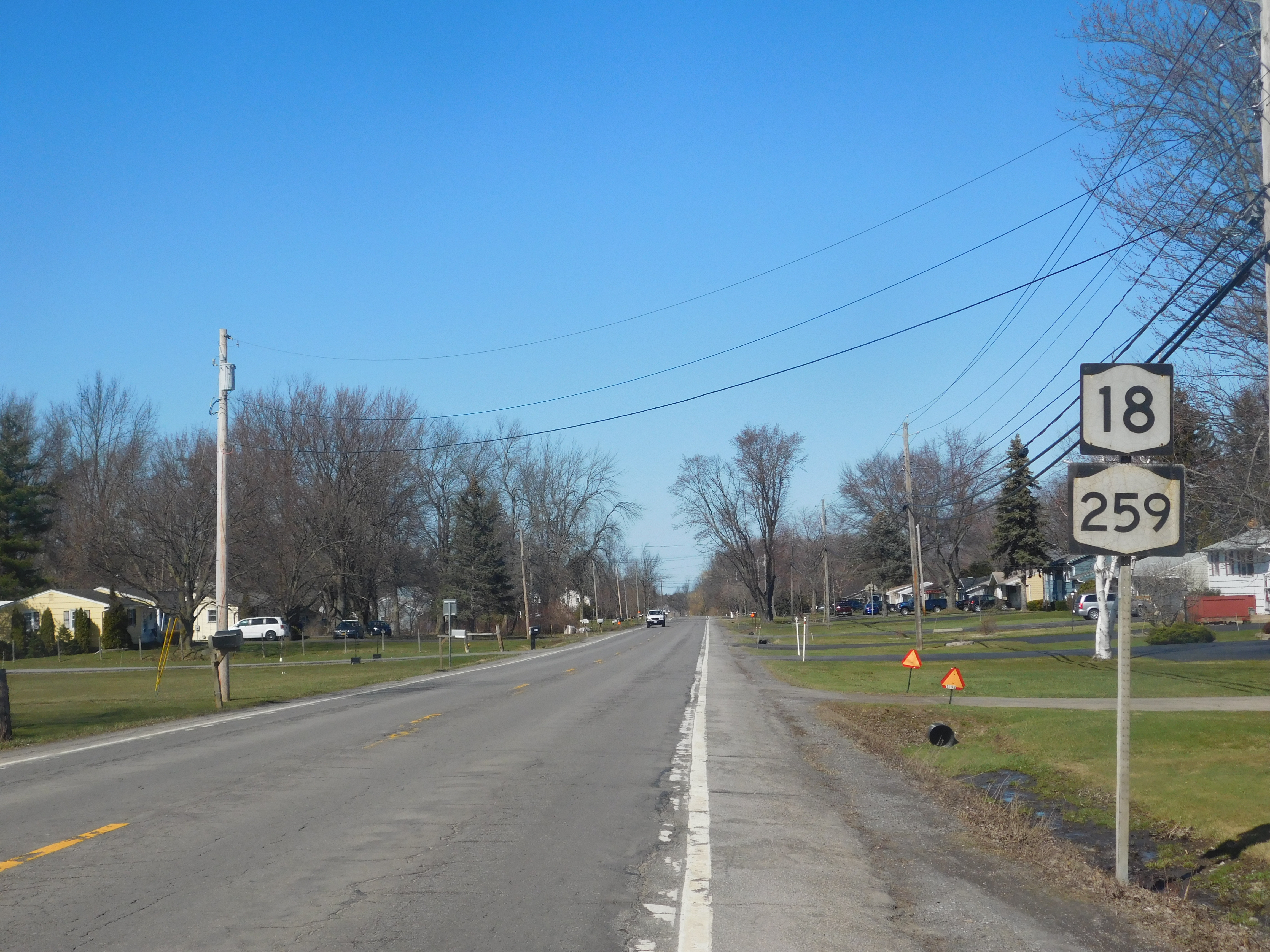 New York State Routes 18 and 259 in the town of Parma, New York.